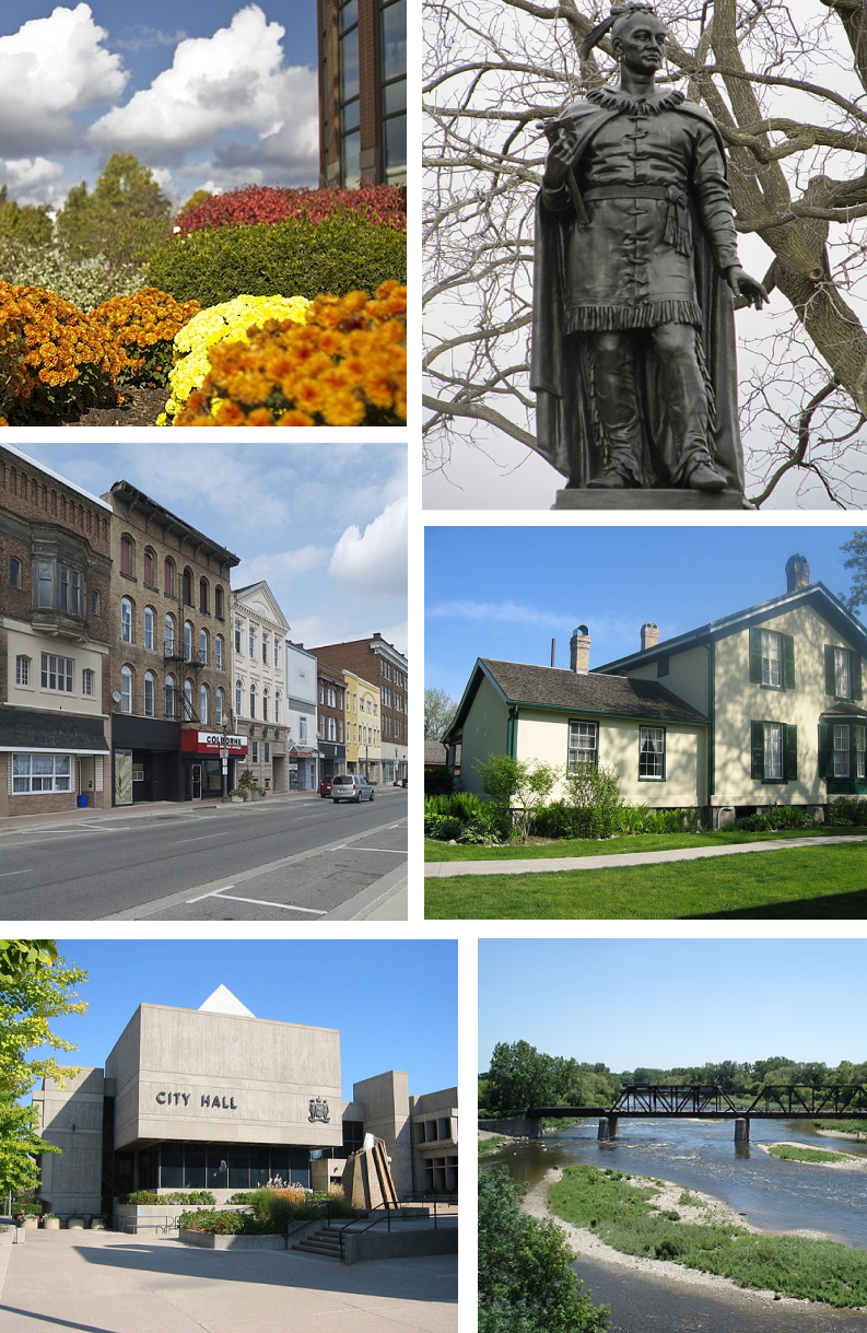 Clockwise from top: Flowerbed outside RBC Building, Statue of Joseph Brant, Colborne Street in Downtown Brantford, Bell Homestead, Brantford City Hall, Grand River. Derived using other free images on Wikimedia Commons